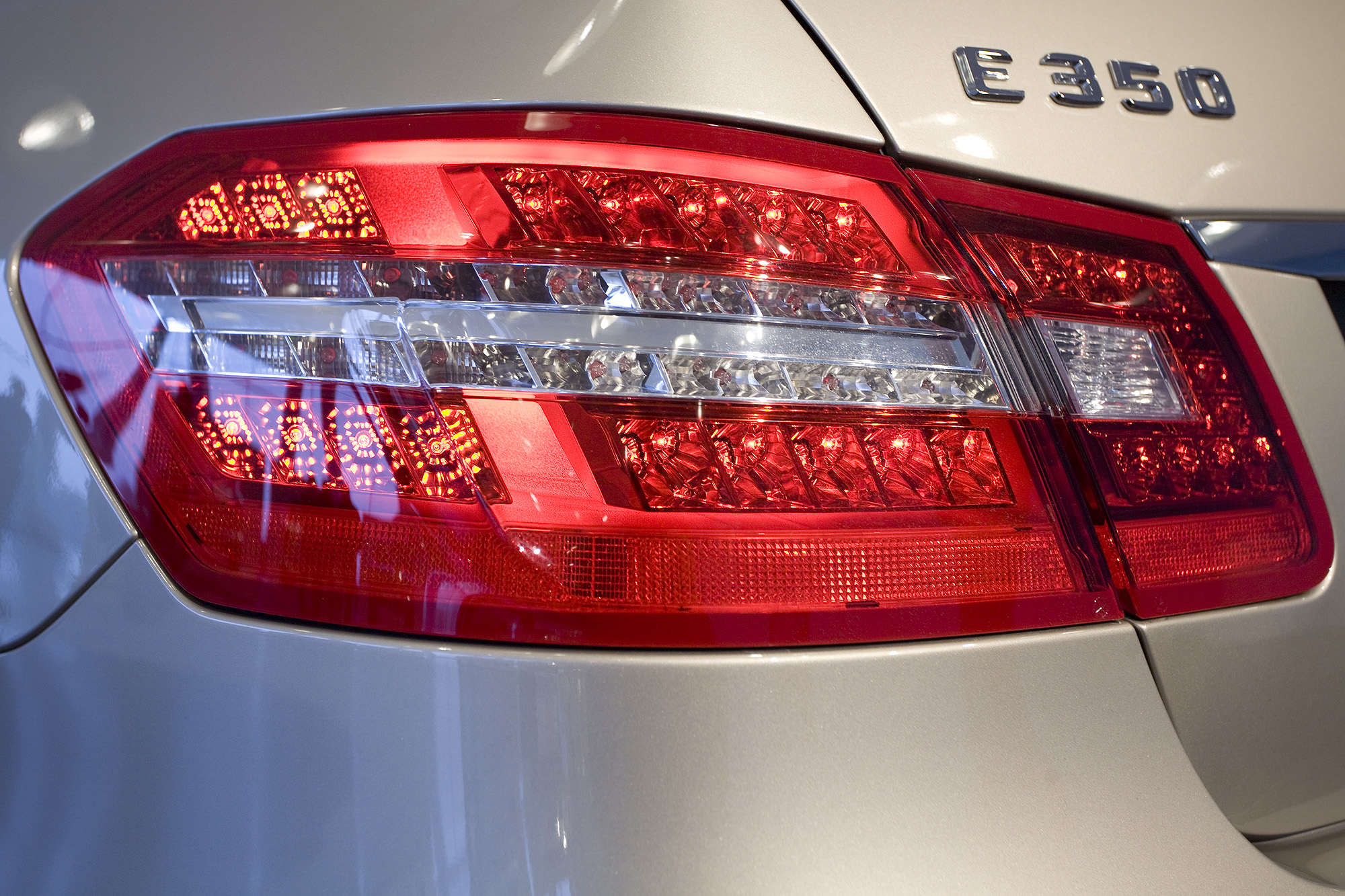 Rear light of the new E-Class, W212.